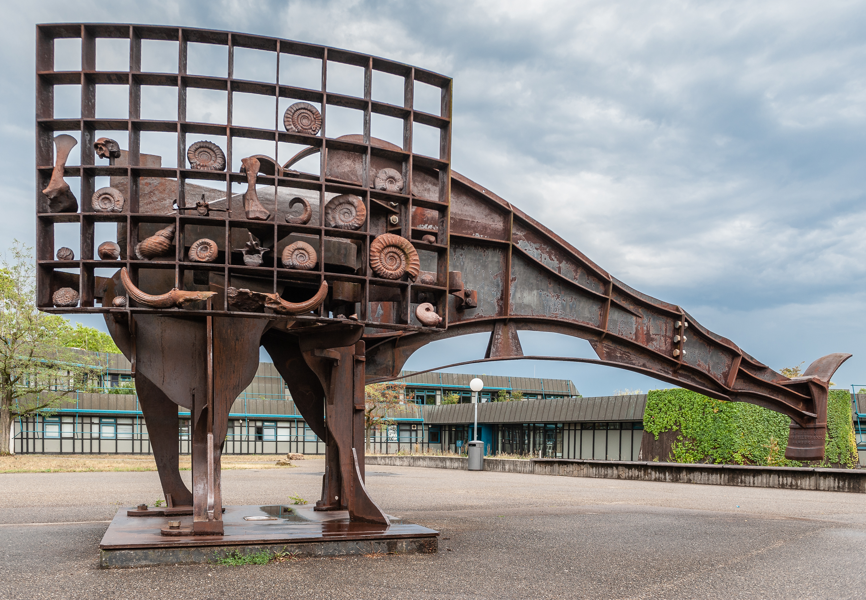 "Saurier" (dinosaur) sculpture by Bernhard Luginbühl in front of Museum am Löwentor, Stuttgart, Germany